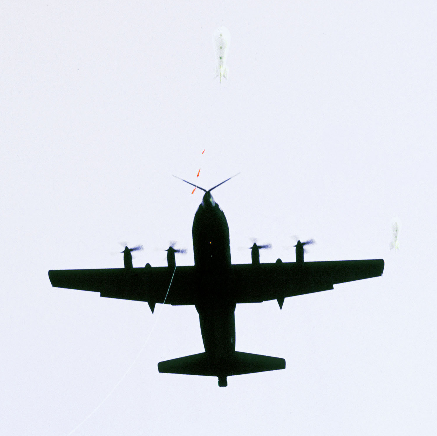 An air-to-ground view of an MC-130 Hercules aircraft from the 8th Special Operations Squadron (8th SOS) demonstrating the Fulton Aerial Recovery System.